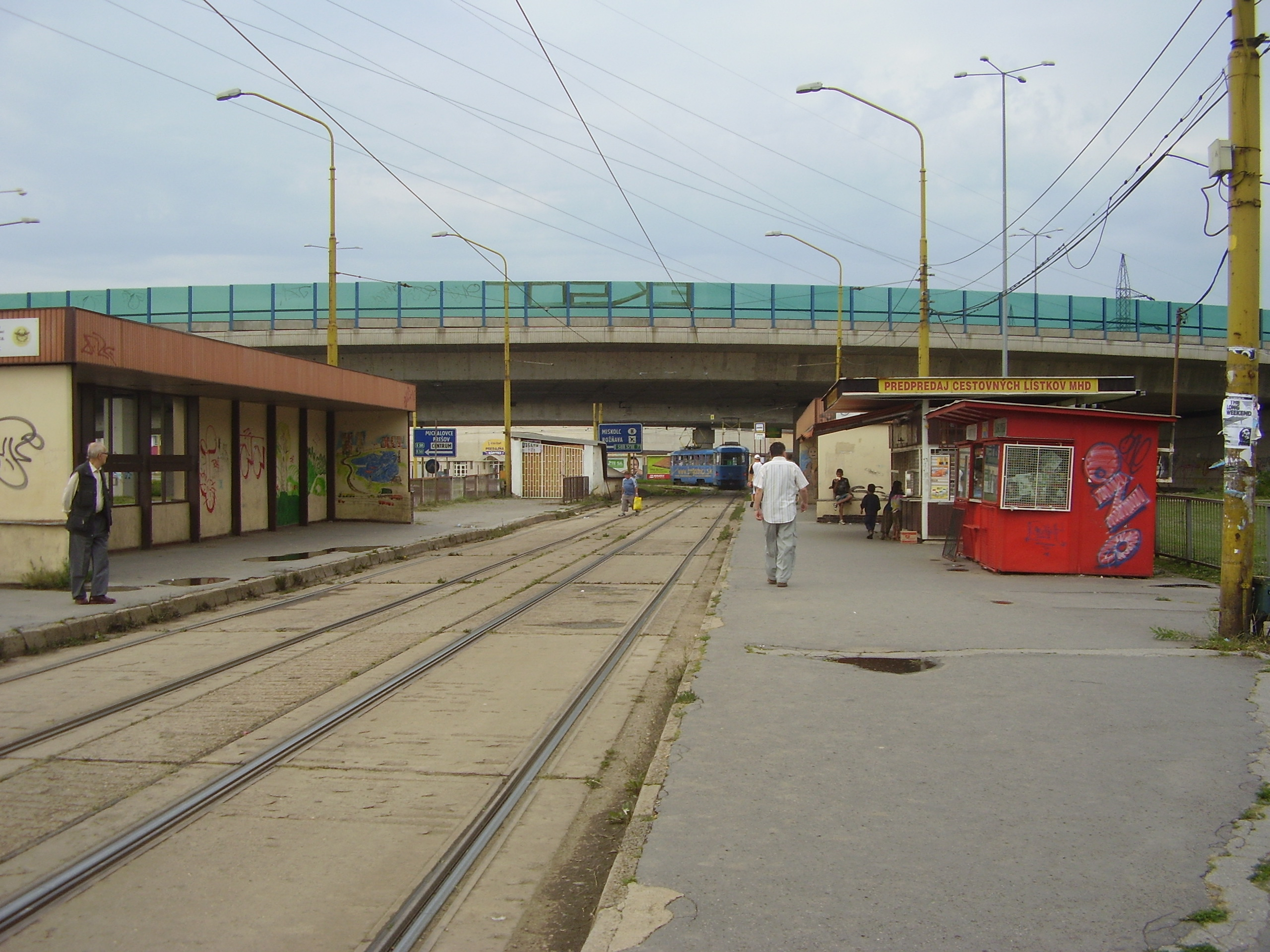 Tram track Nad Jazerom – centrum, Levočská towards centrum, Košice